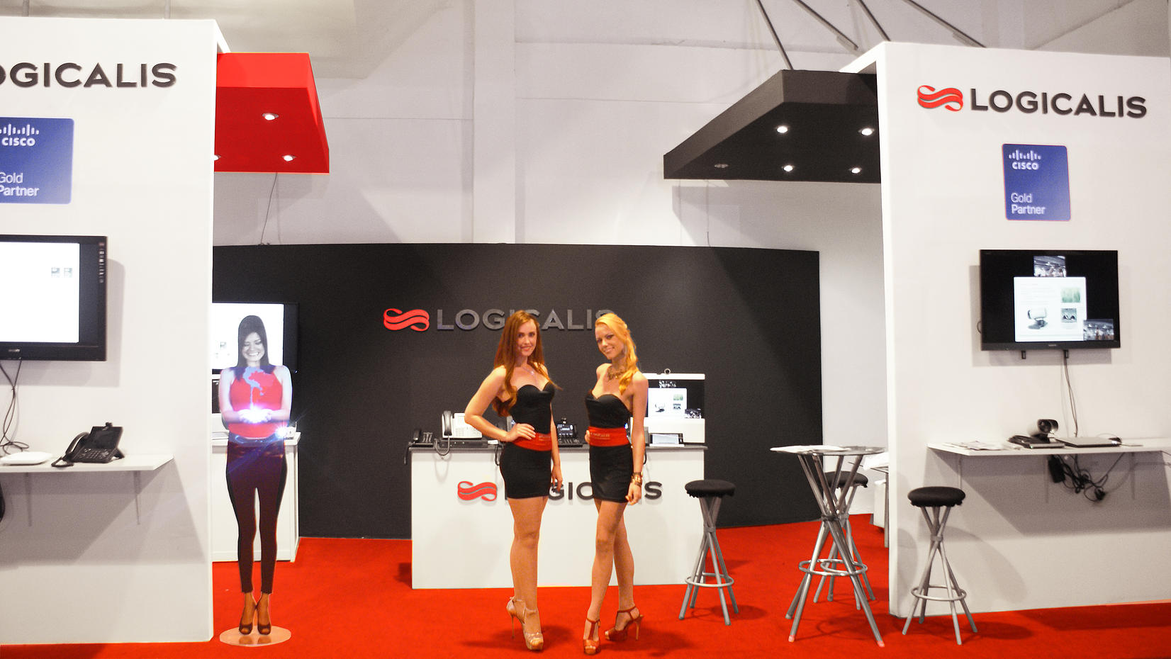 stand de Logicalis